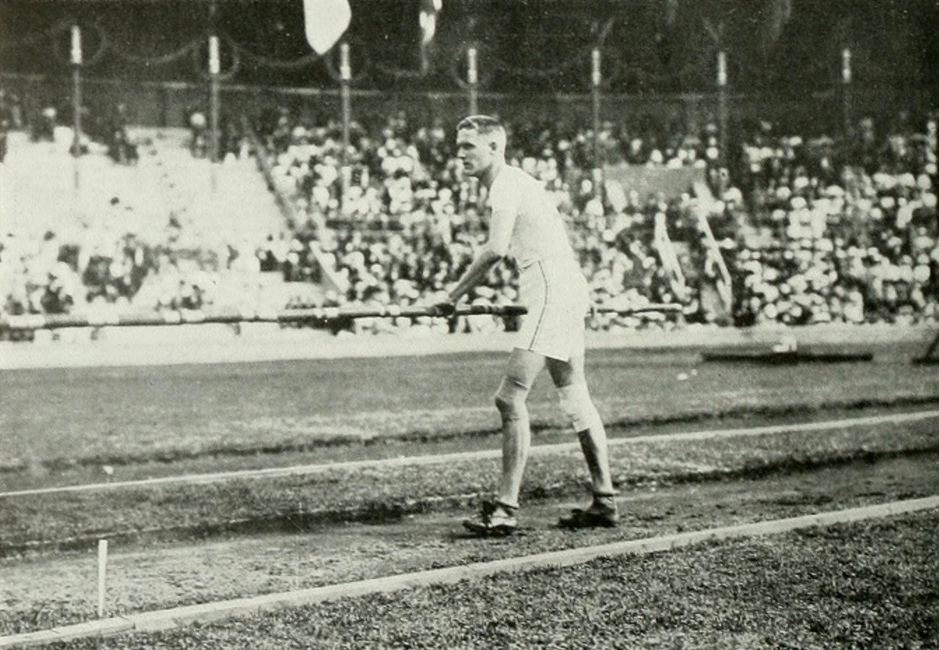 Harry Babcock during the pole vault competition at the 1912 Summer Olympics